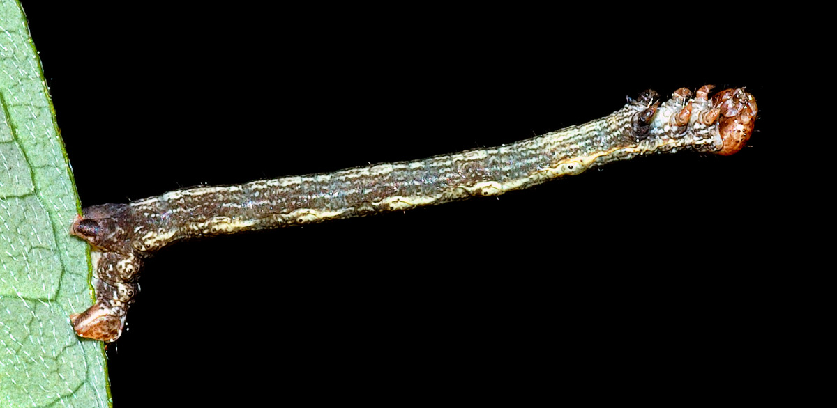 This image shows a 13 mm large caterpillar. The species is unknown, any help identifying it would be greatly appreciated.